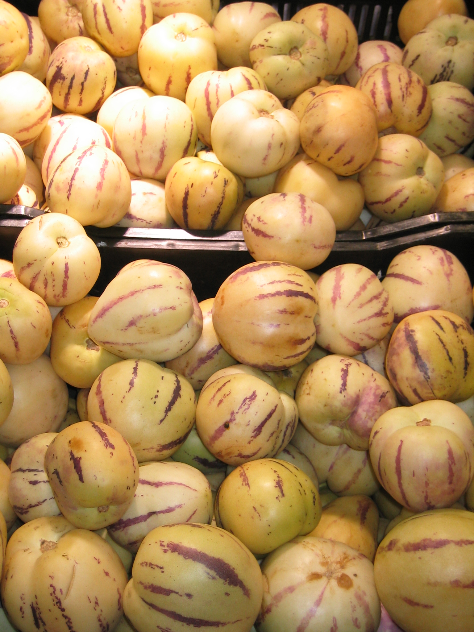 Main commercial variety of Solanum muricatum, locally called "pepino" or "pepino dulce". Location Supermarket Lima, Peru